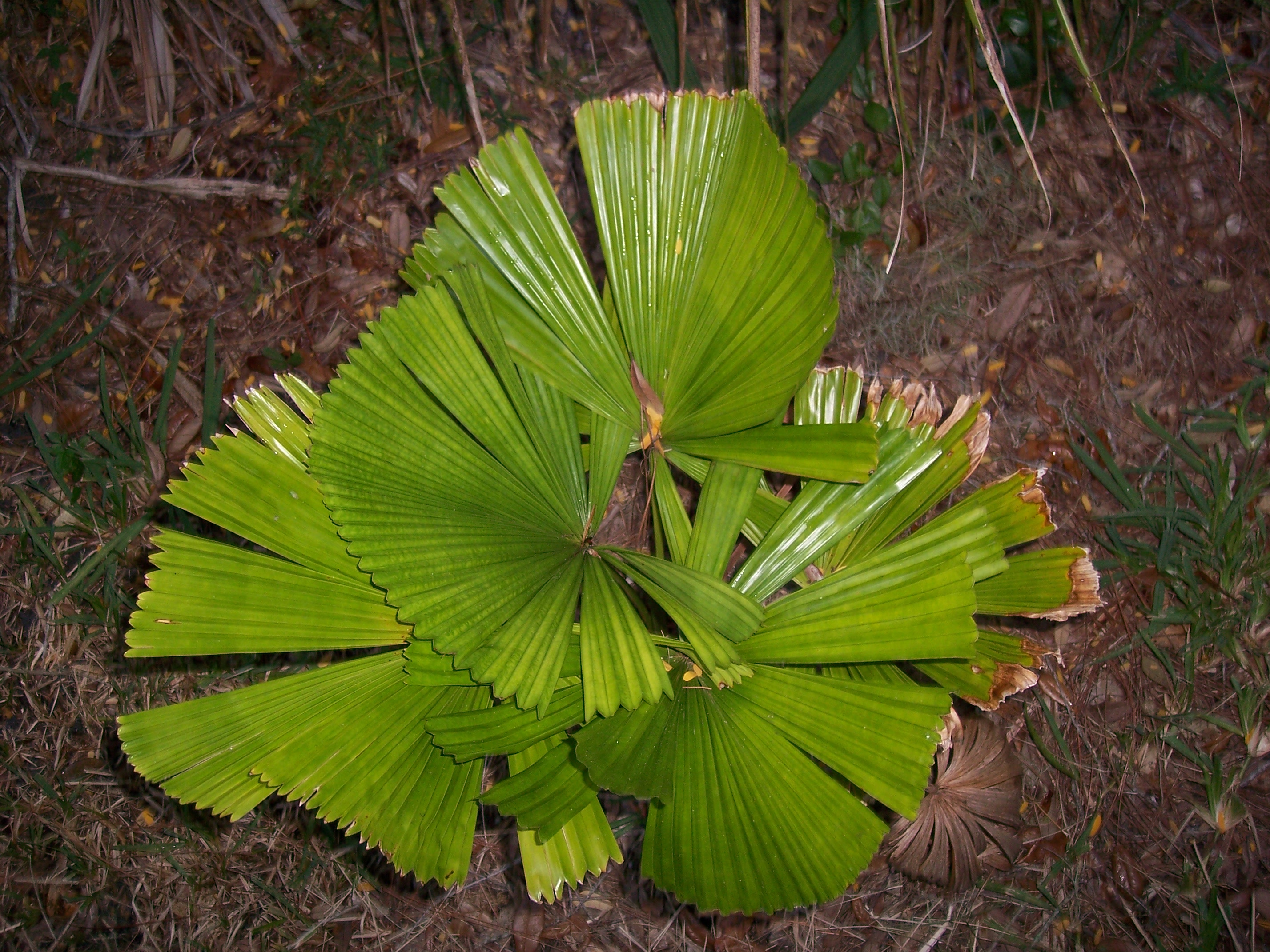 Licuala ramsayi Tampa, Florida